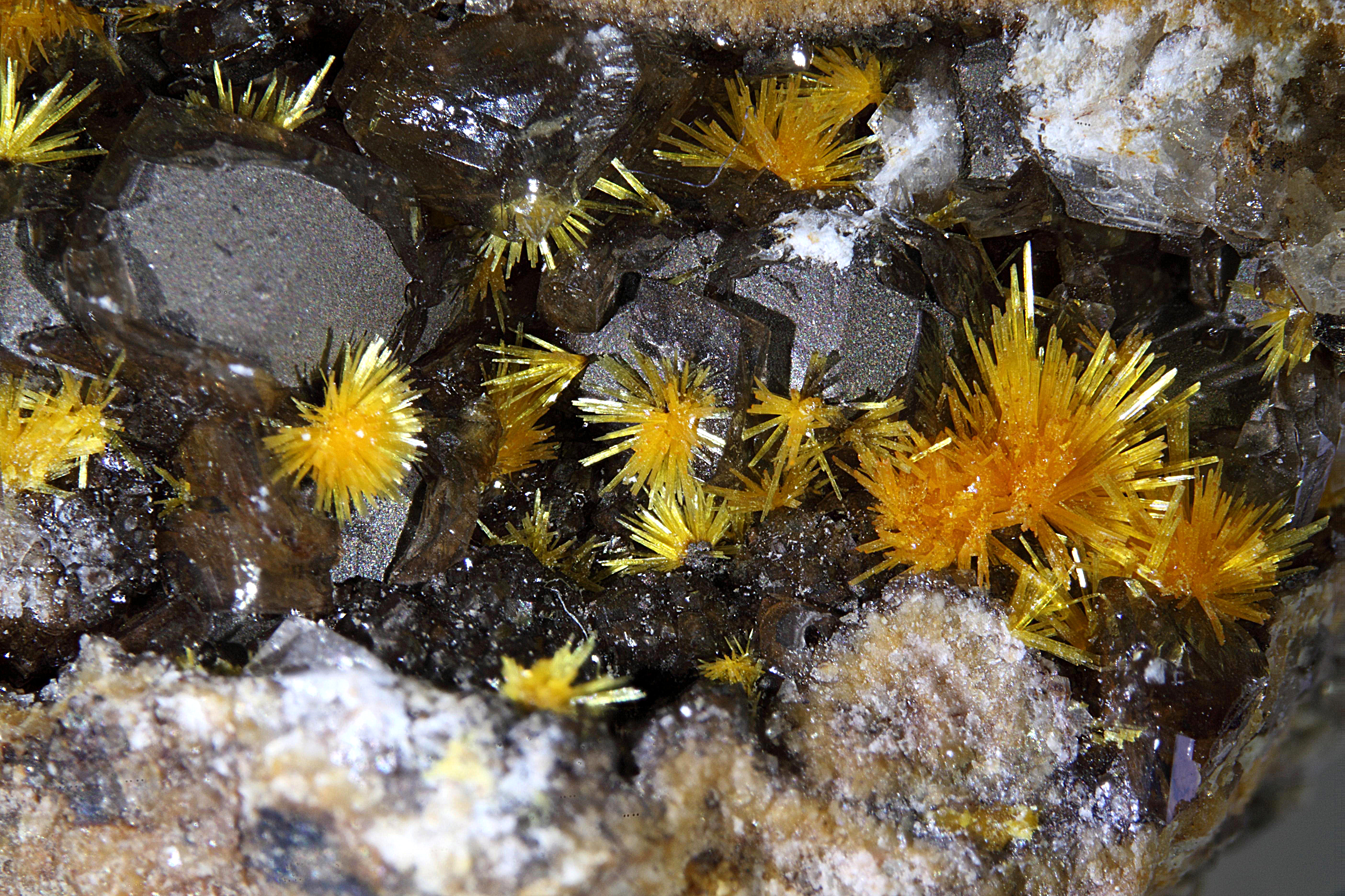 Orange-brown needles of boltwoodite on smoky quartz from Goanikontes claim, Namibia